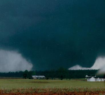 F4 killer tornado that struck Piedmont, Alabama on March 27, 1994.